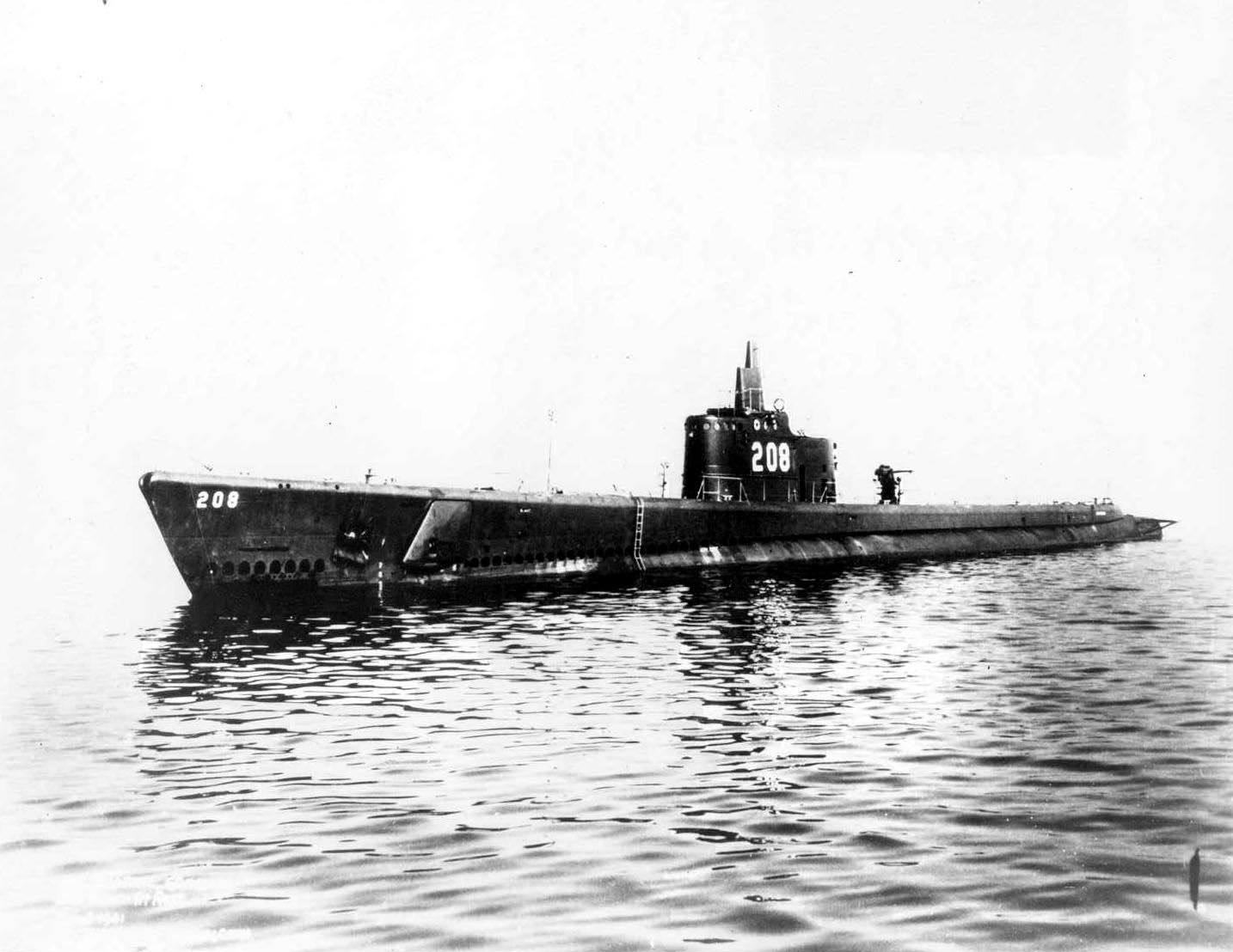 USS Grayback (SS 208) from US government source, public domain